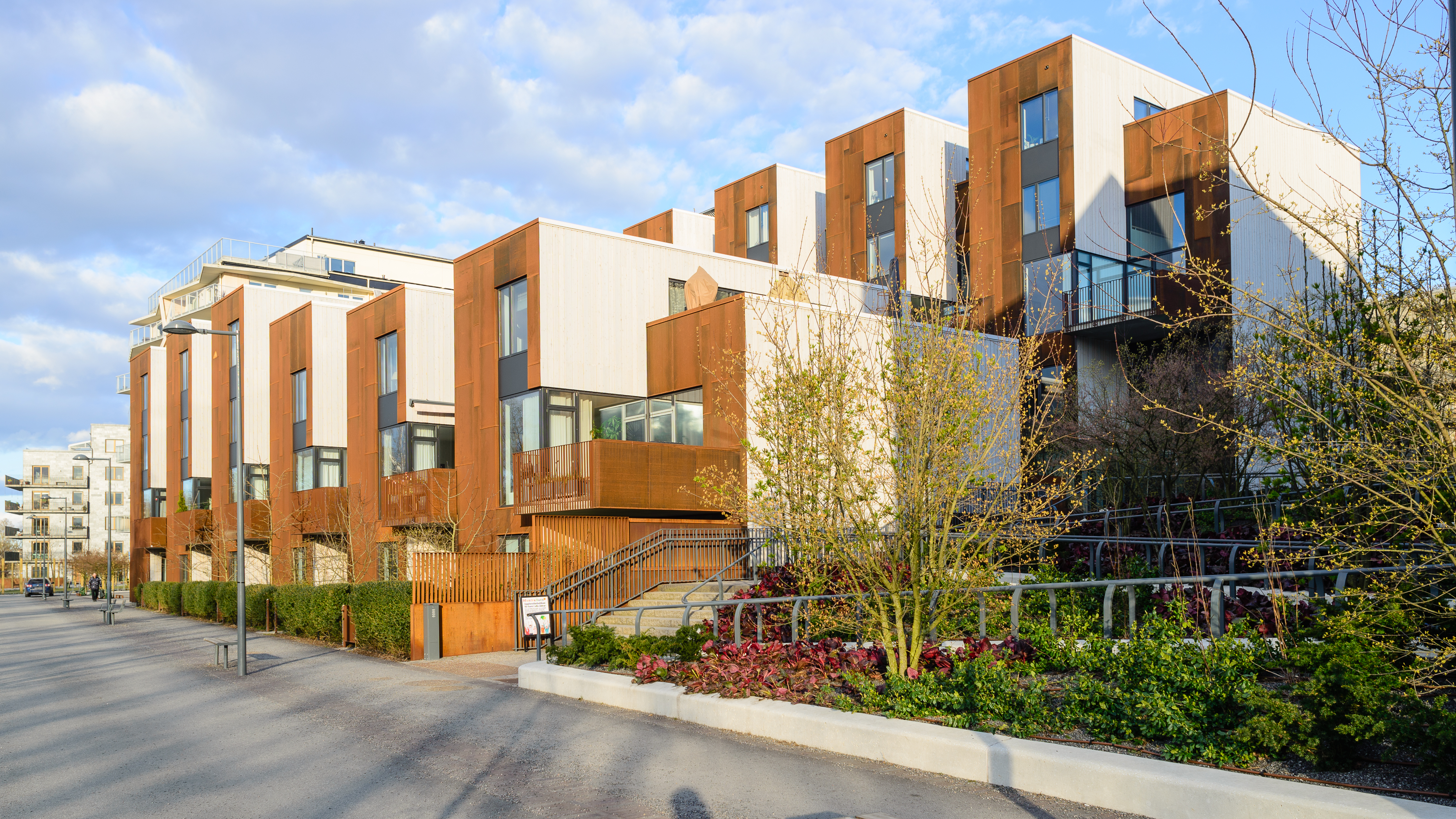 Zenhusen, Norra Djurgårdsstaden. Architects CF Möller Architects.